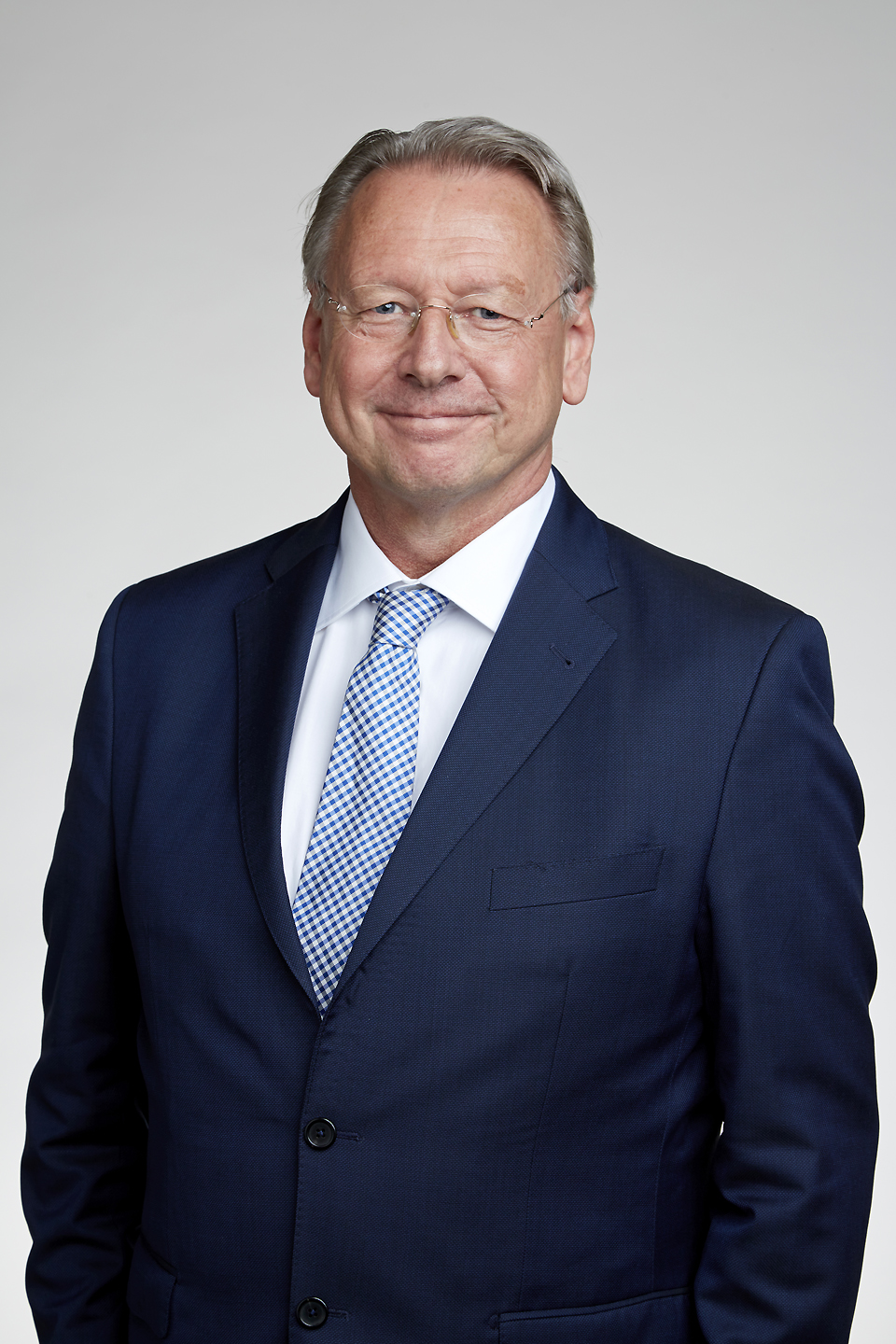 Paul Workman, FRS, FRSC, FMedSci (born 30 March 1952) is a British scientist noted for his work on the discovery and development of new cancer drugs Attribution: The Royal Society